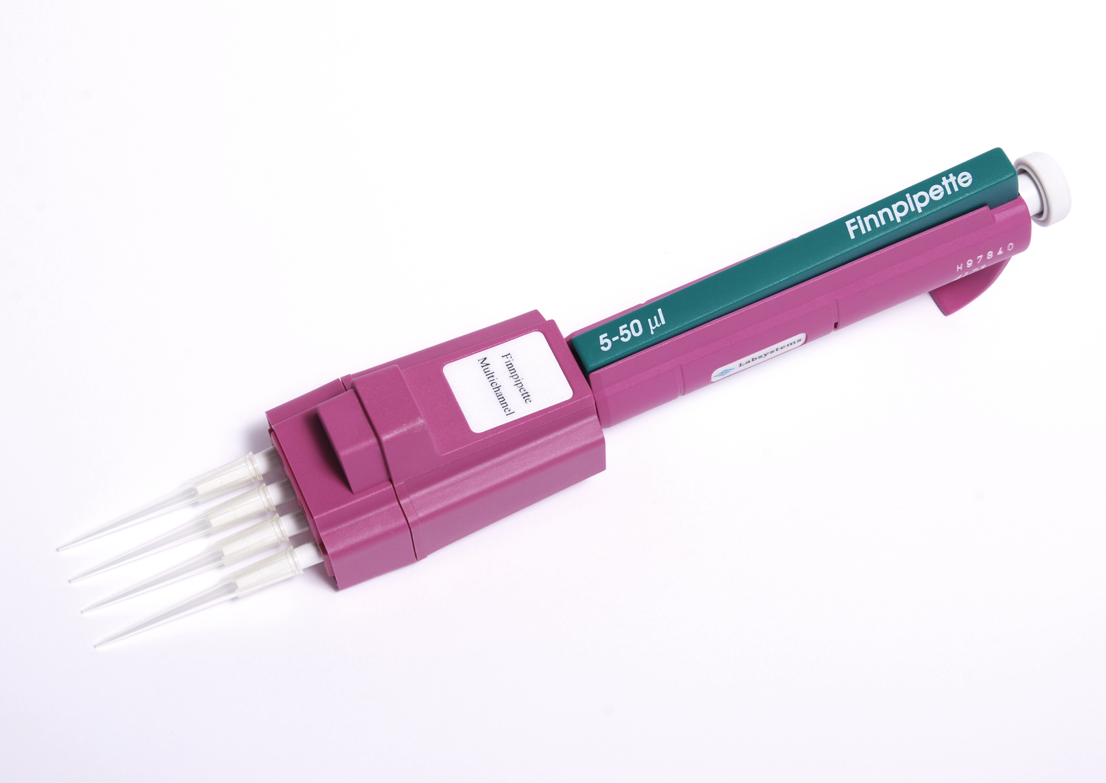 Four-channel pipette with tips.